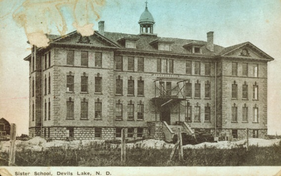 Picture postcard of Sister School, aka St. Mary's Academy, Devils Lake, North Dakota. Source entry at the NDSU site states the "Date of Original" is August 17, 1910.